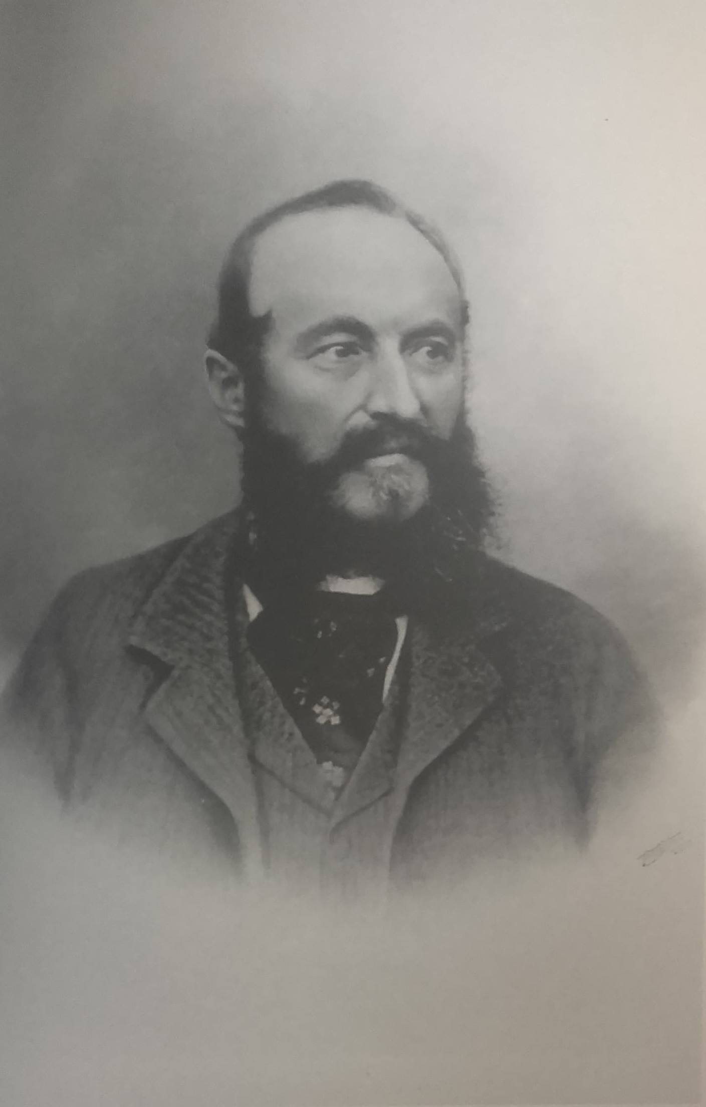 Paolo Morassutti (1844-1898), father of Federico. Photo taken in 1890.